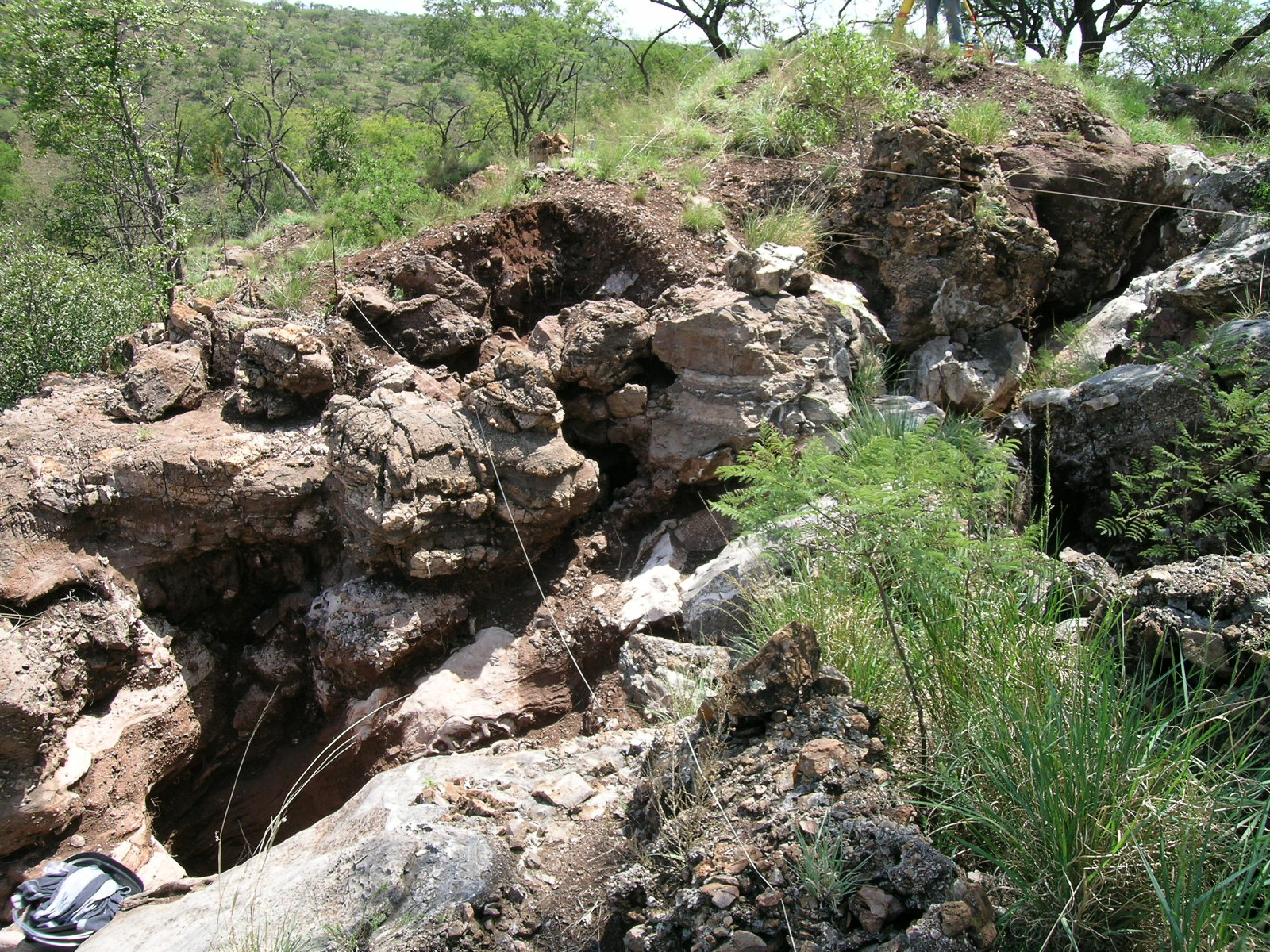 Photo of the GD 1 portion of the modern Gondolin Cave system during the 2004 excavations into the fossil-bearing deposits